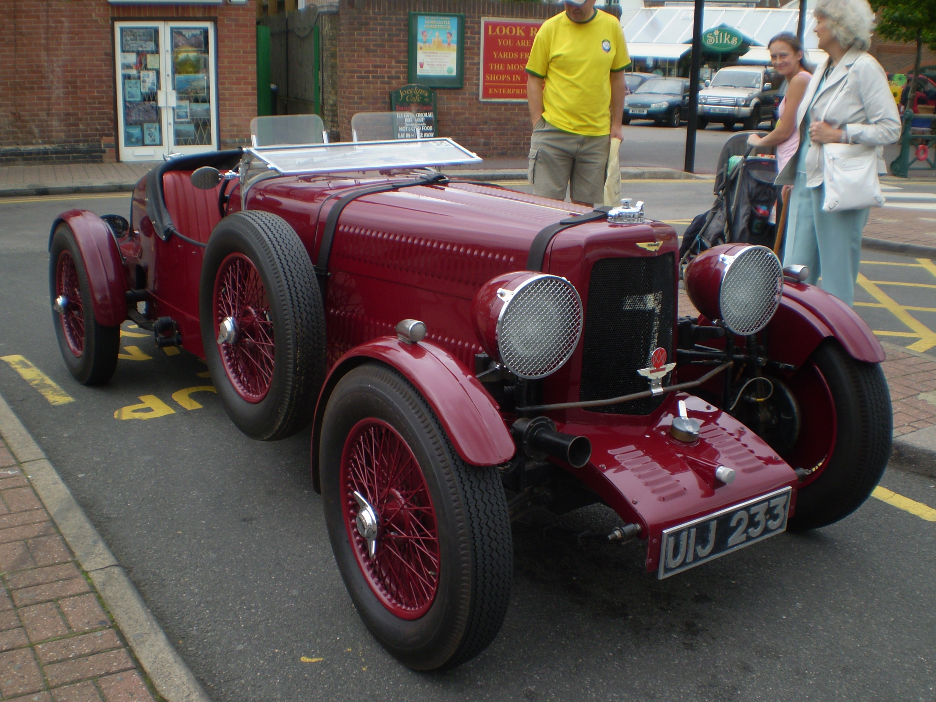 Aston Martin "Ulster" sportscar 1987 An immaculate Aston Martin "Ulster" at Eastbourne station 1987 replica Aston Martin Ulster by Fergus Engineering, one of seven replicas Estimate: £18,000 - £30,000 Registration Number: UIJ 233 Chassis Number: M71W010850 more info